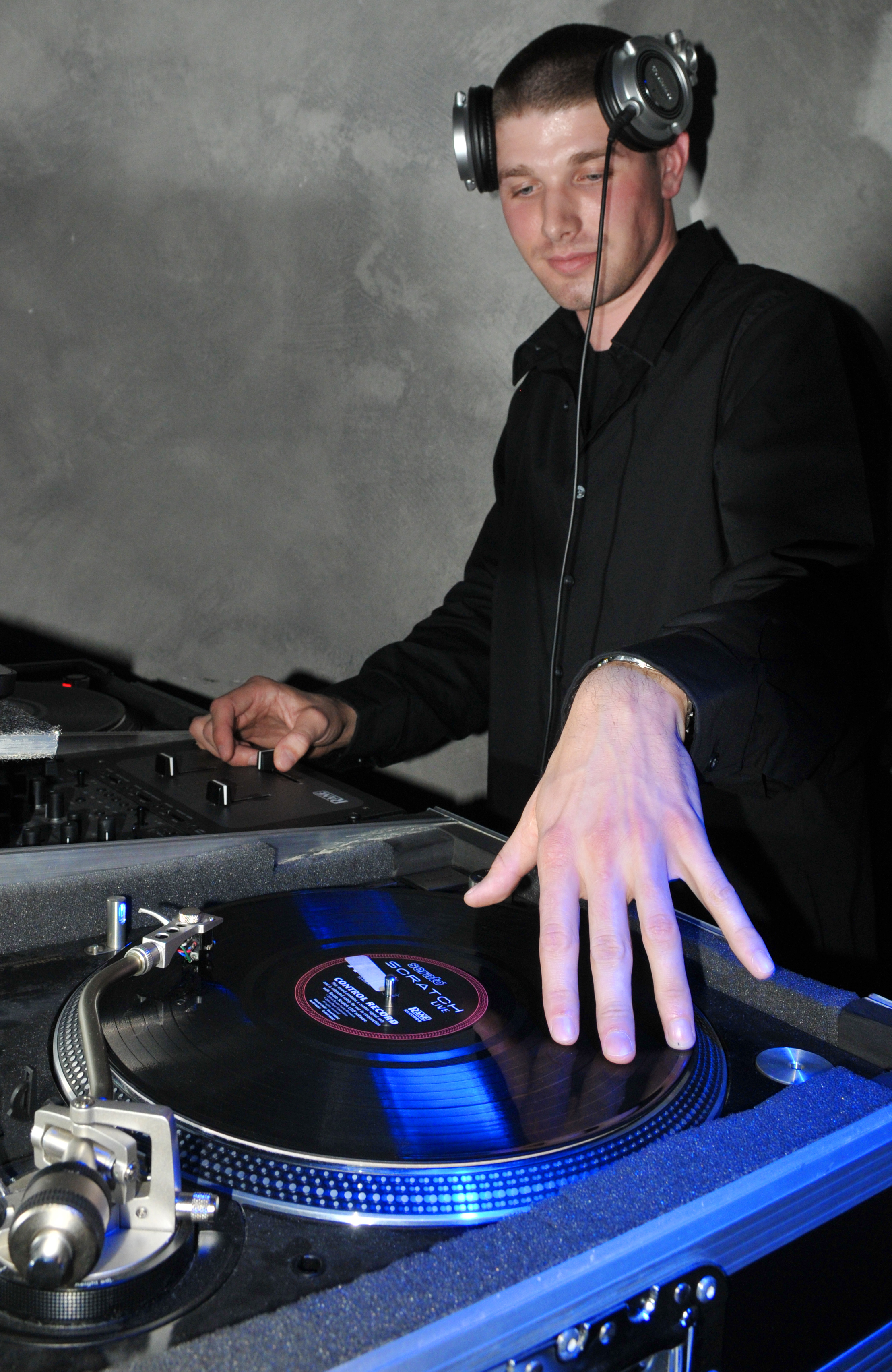 SPANGDAHLEM AIR BASE Germany -- Club Eifel disc jockey DJ Blaze plays music at the 2009 Air Force Ball here at Club Eifel Sept. 25. Sabers from across the 52nd Fighter Wing were invited to attend the event, which observed the Air Force's birthday and Airmen's contributions around the globe. This year's theme was "All in...Globally Engaged" to recognize the unique role the Air Force fulfills in missions across the world. U.S. Air Force photo/Airman 1st Class Nick Wilson, VIRIN: 090925-F-1239W-510.JPG